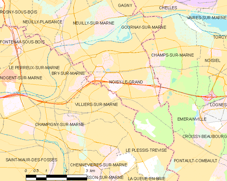 Map of French municipality Noisy-le-Grand